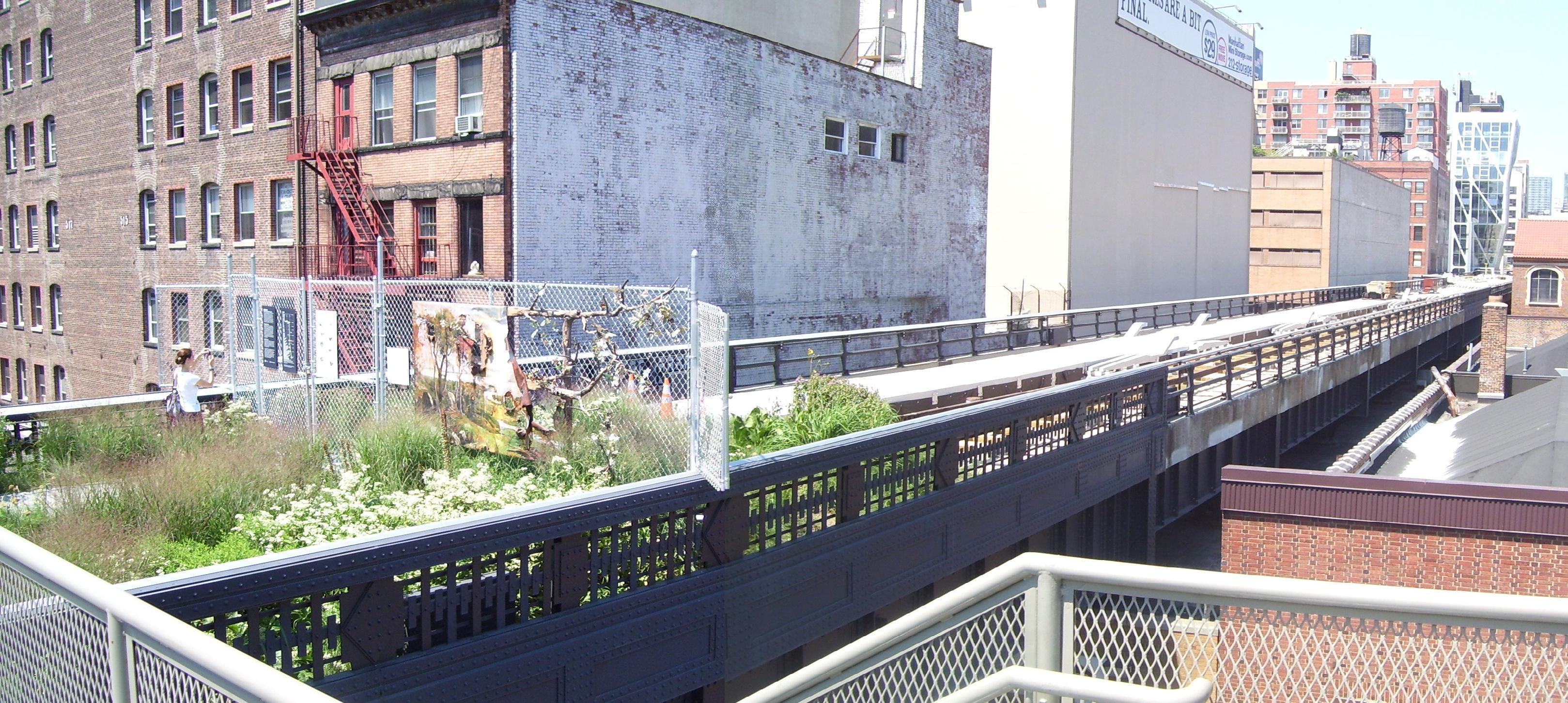 The High Line in Manhattan, New York City at West 20th Street, looking uptown (noth) at the unreconstructed portion. Photomontage of 2 images combined.